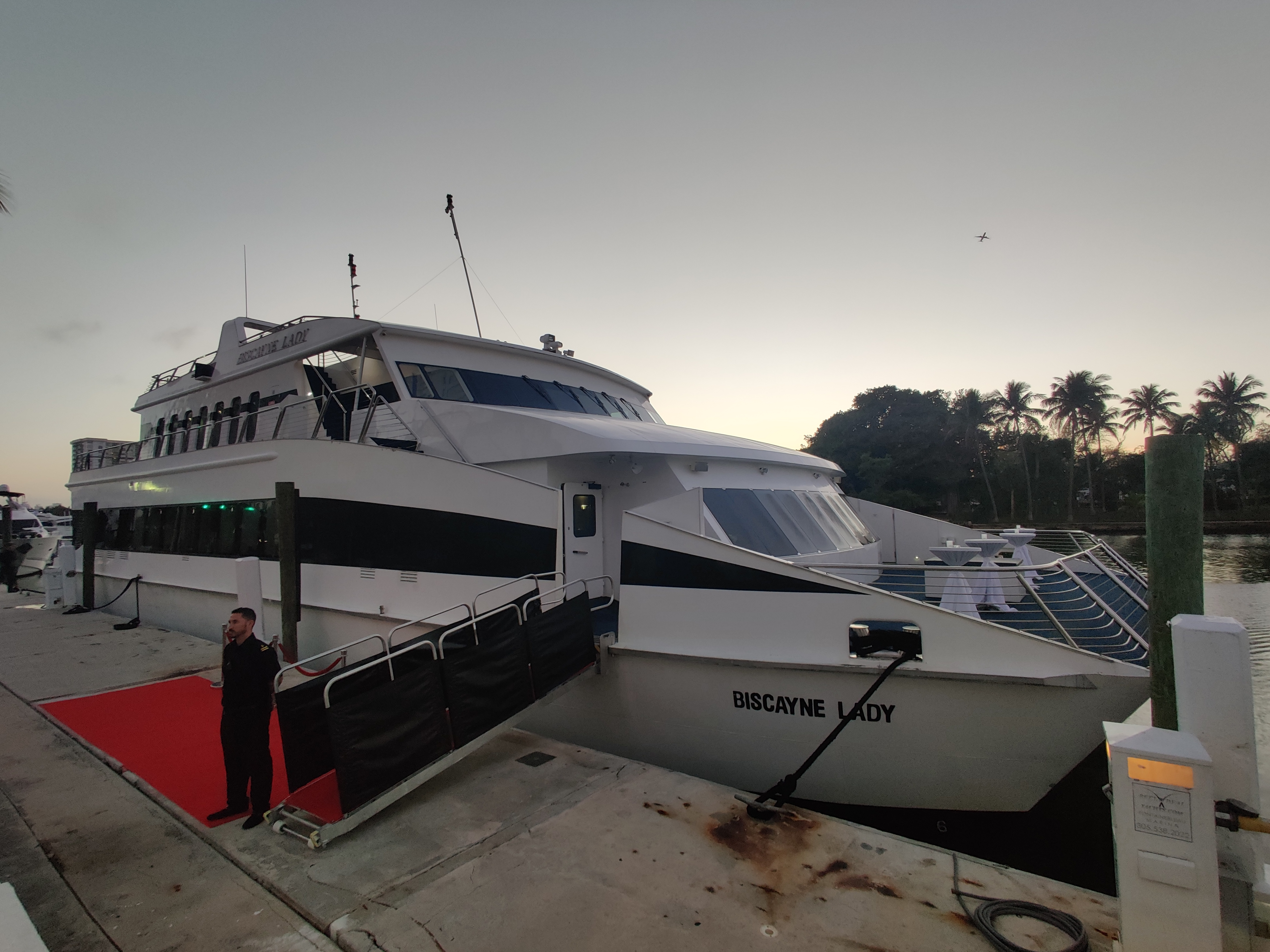 Biscayne Lady charter yacht prepared for boarding while docked in front of Eden Roc Hotel in Miami Beach, Florida.